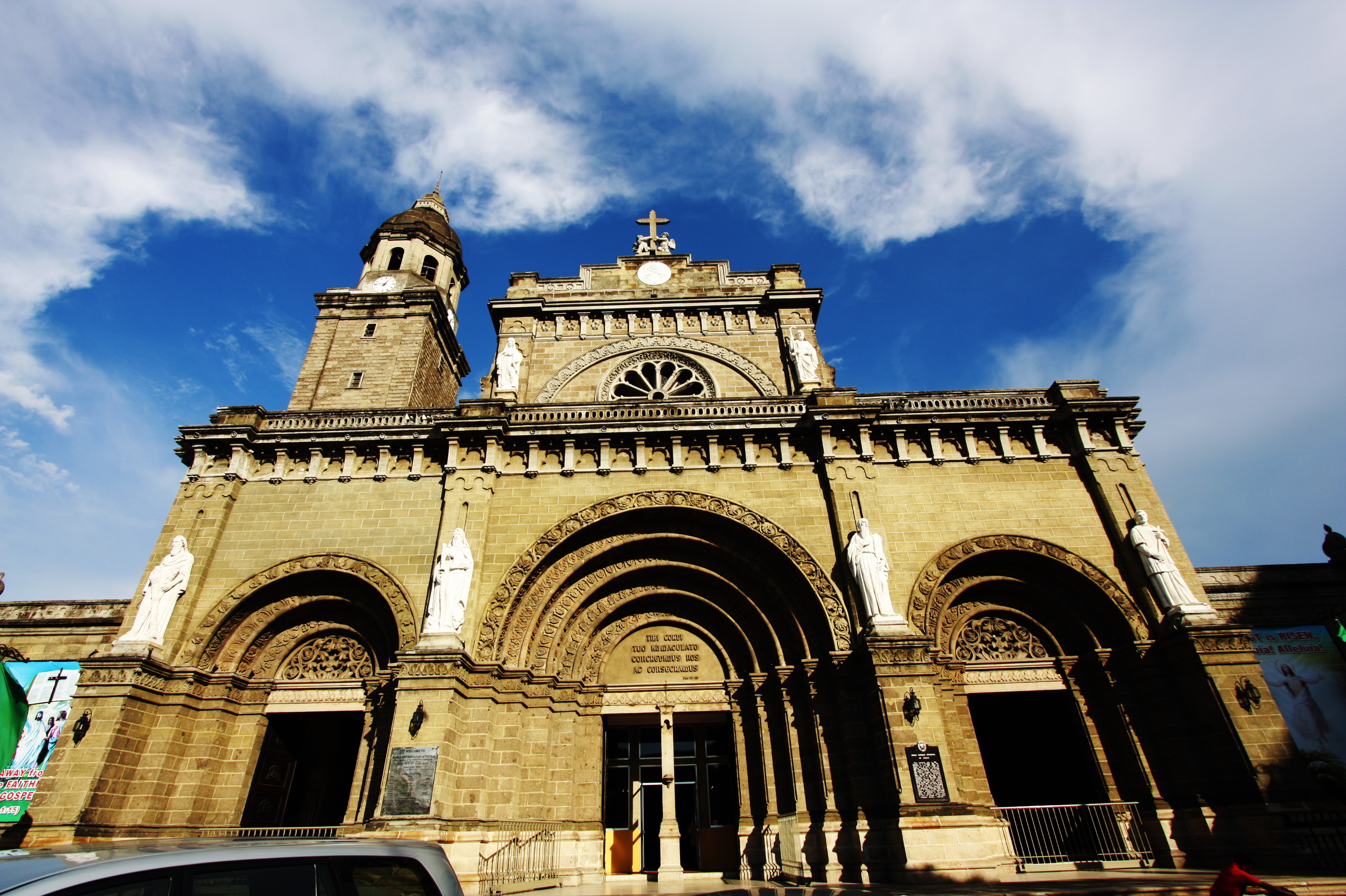 The facade of Manila Cathedral